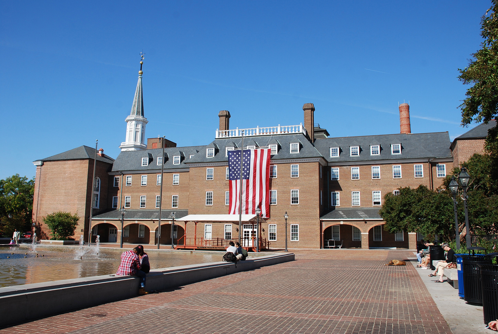 Alexandria City Hall